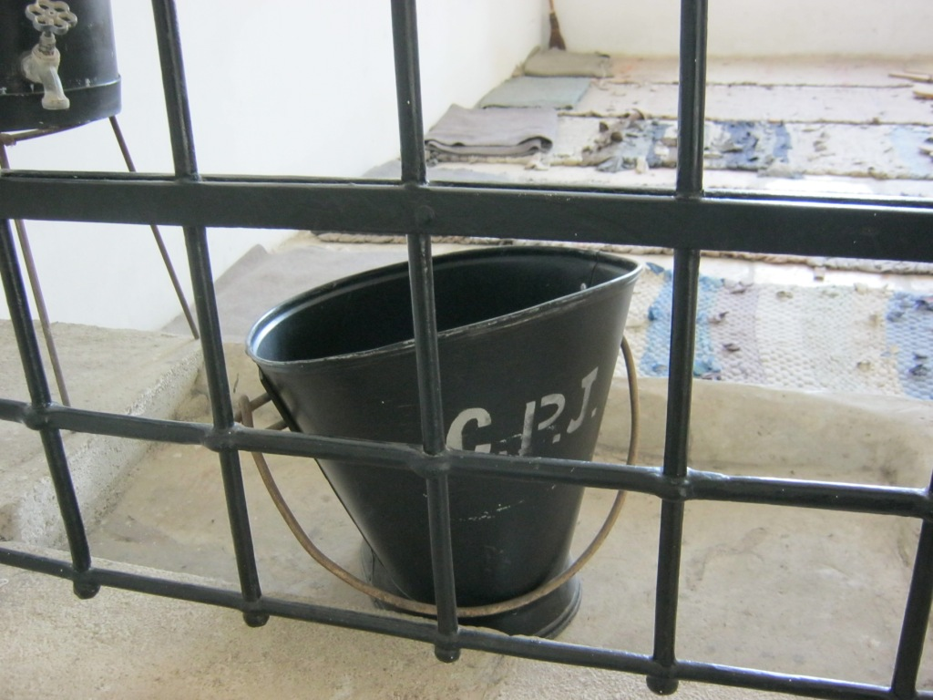 A bucket for feces and urine in a prisoner's cell